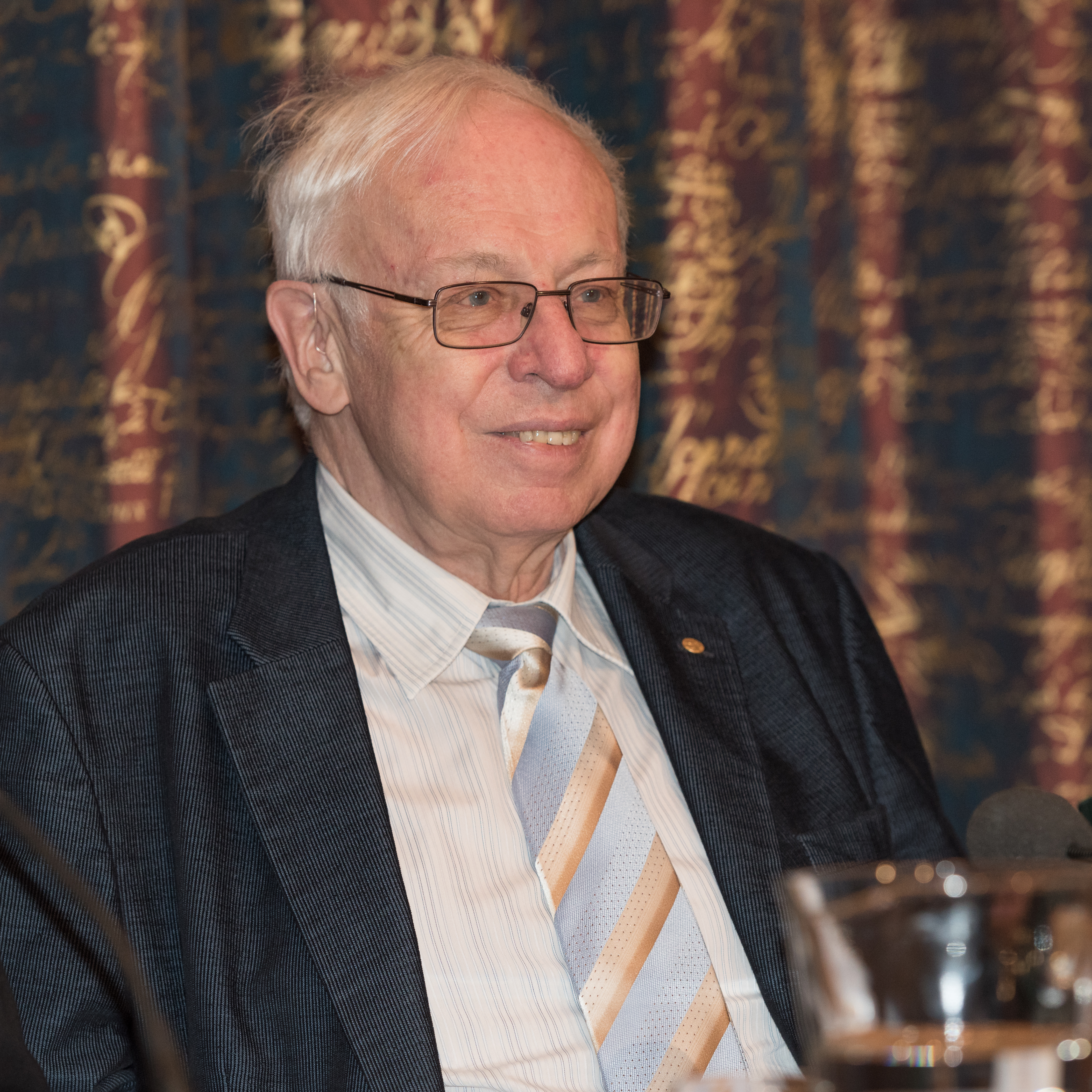 Tomas Lindahl, Nobel Laureate in chemistry during press conference at Vetenskapsakademien in Stockholm, December 2015